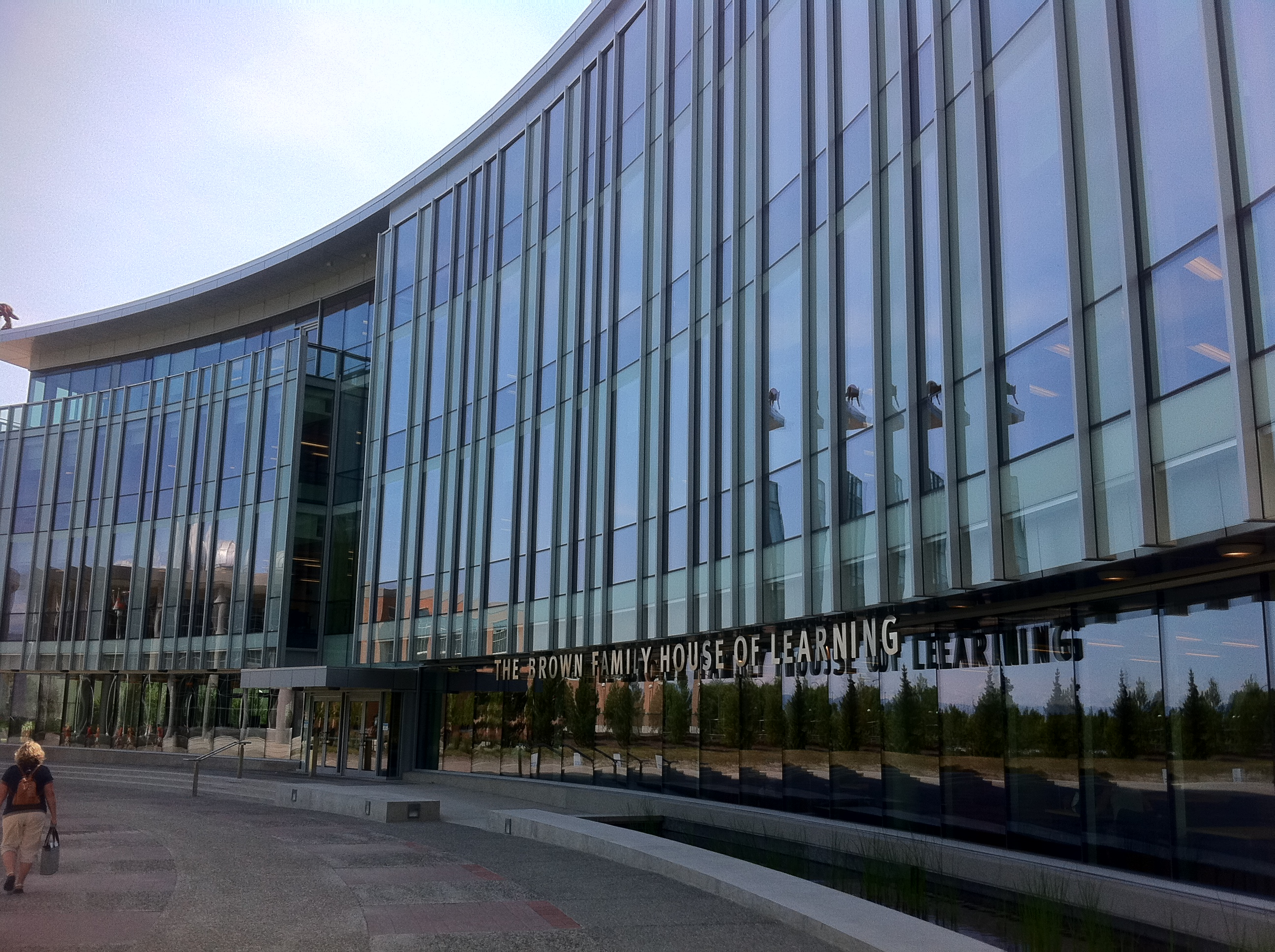 Thompson Rivers University House of Learning